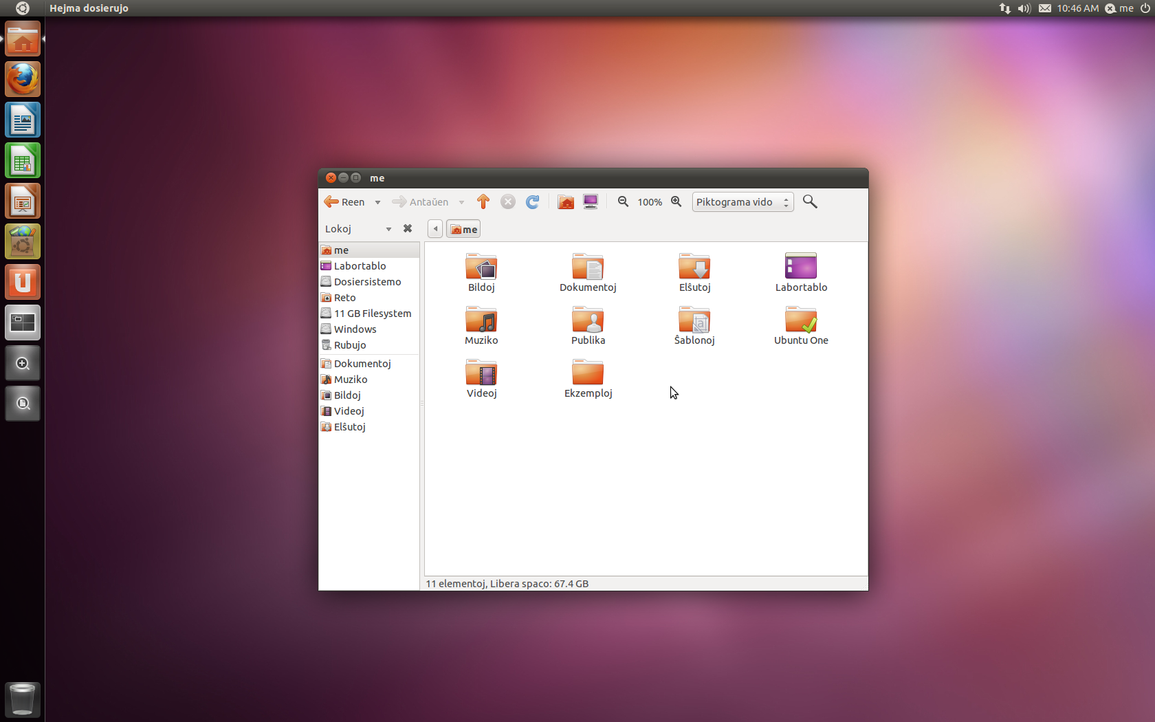 Screenshot of Ubuntu 11.04 (Natty Narwhal) in Esperanto.